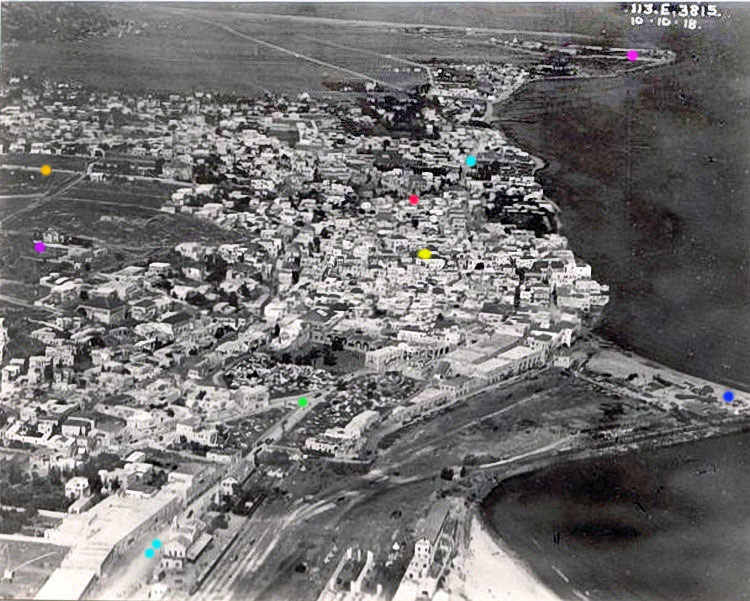 Historical images of Haifa